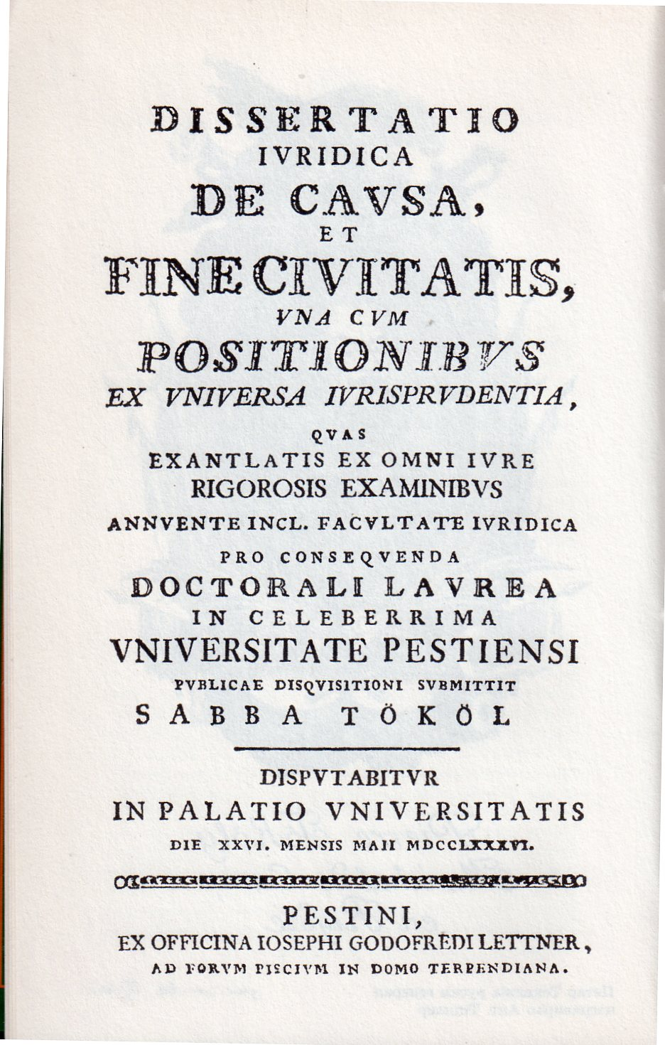 Cover Sava Tekelija dissertation from 1786.